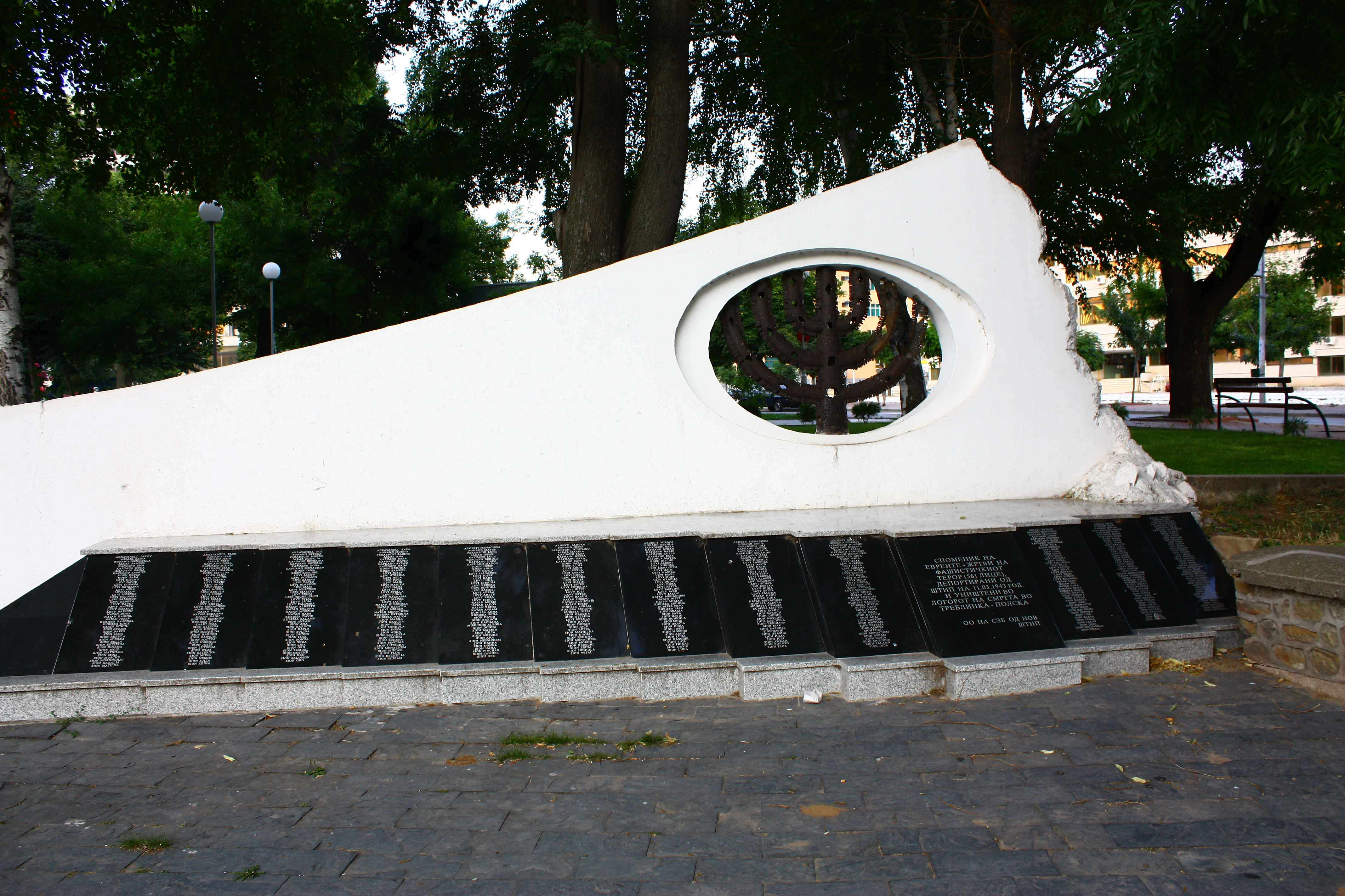 Monument of deported Jews in Štip, Macedonia.